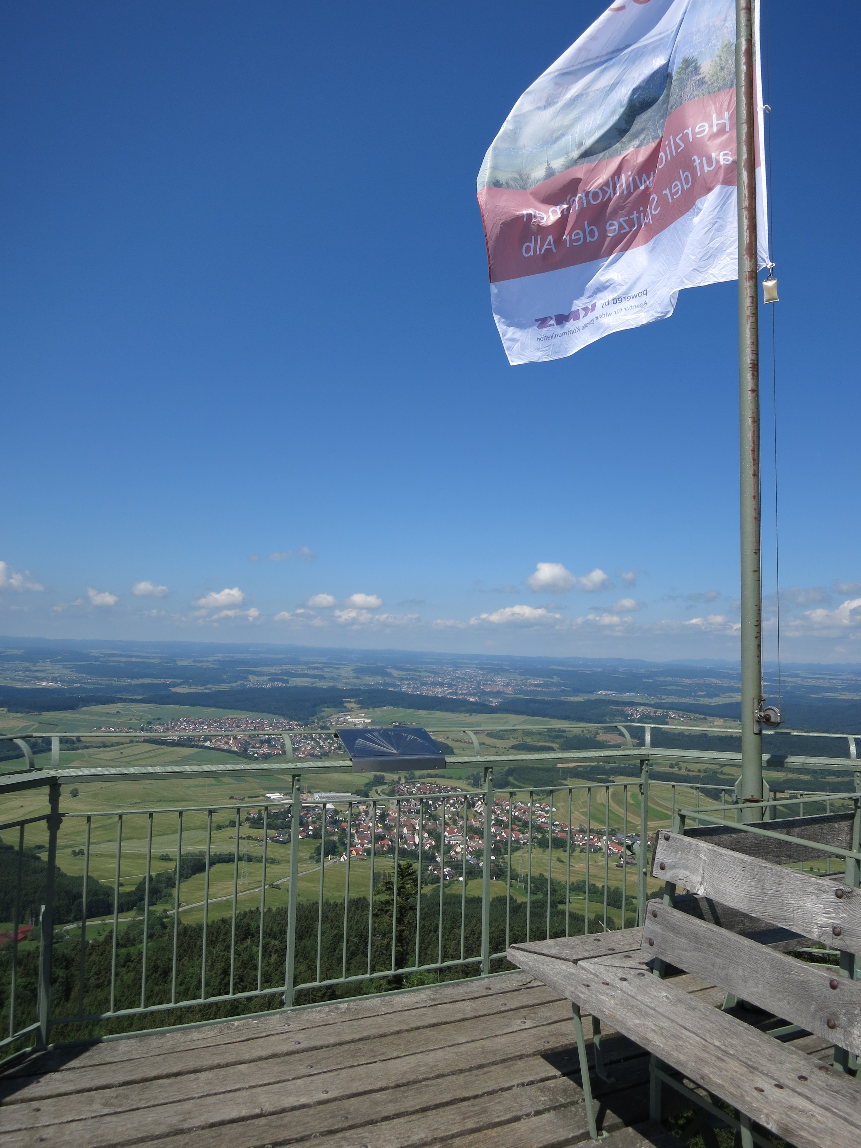 On top of Lemberg, Schwaebische Alb